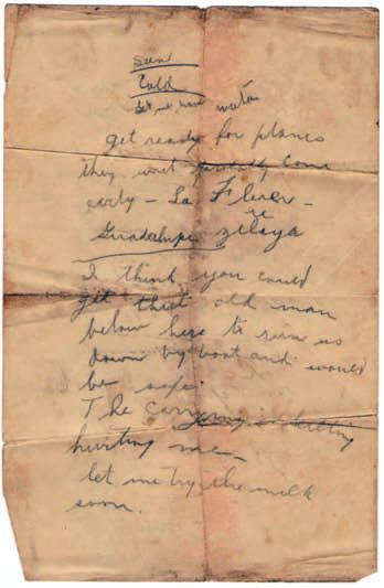 Notes of Captain Robert S. Hunter, USMC, made during the Battle of La Flor in 1928.